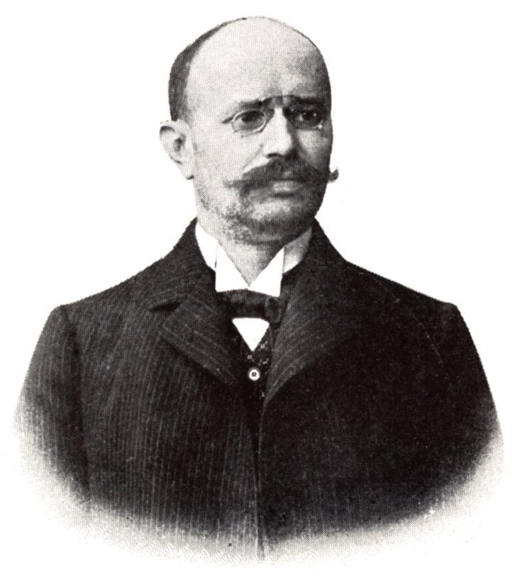 Aladár Ballagi (1853-1928), Hungarian teacher, politician